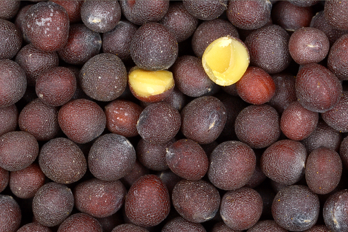 Close-up picture of mustard seeds